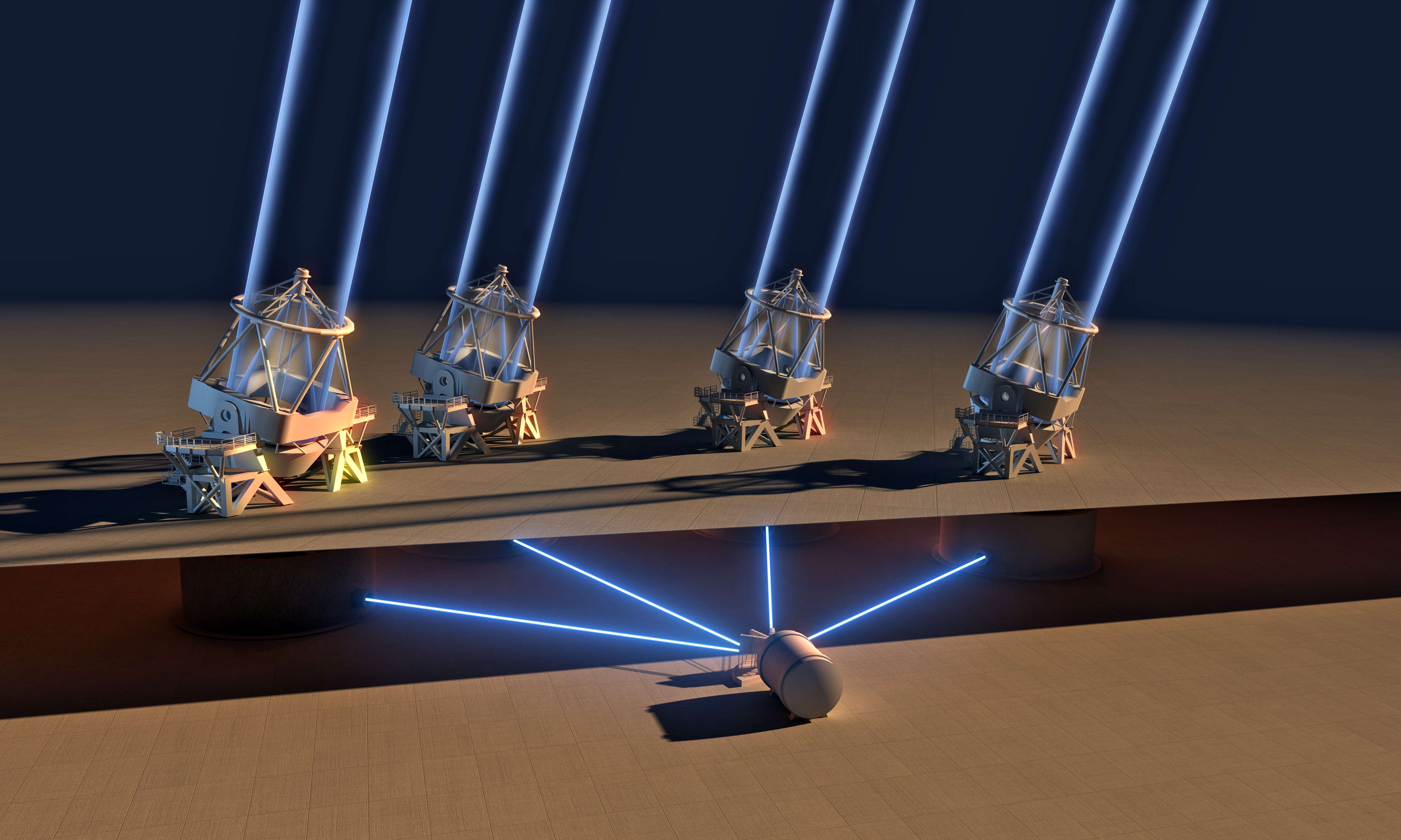 The ESPRESSO instrument on ESO’s Very Large Telescope in Chile has used the combined light of all four of the 8.2-metre Unit Telescopes for the first time. Combining light from the Unit Telescopes in this way makes the VLT the largest optical telescope in existence in terms of collecting area. This picture shows in highly simplified form how the light collected by all four VLT Unit Telescopes is combined in the ESPRESSO instrument, located under the VLT platform.